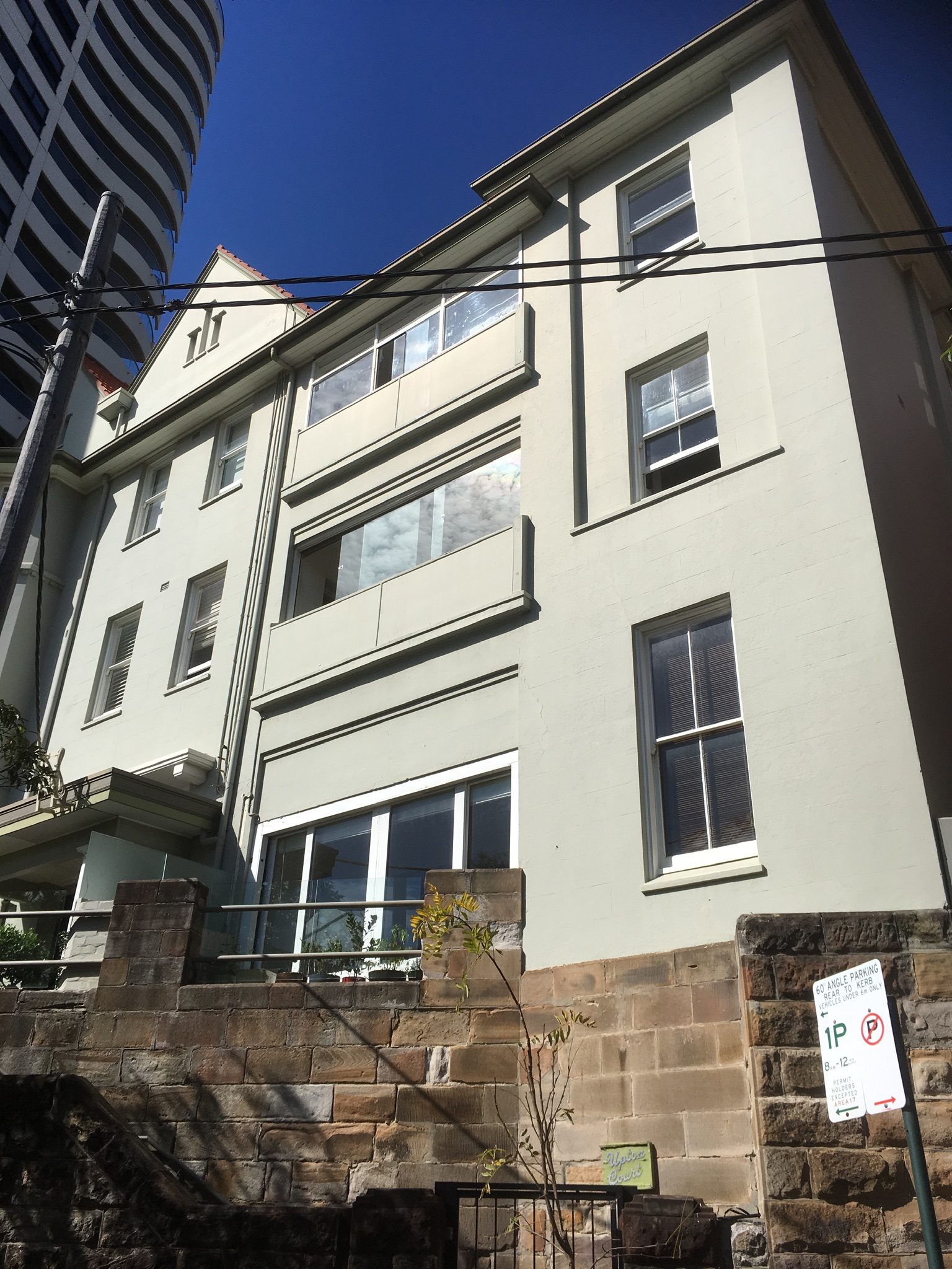 Woolley House